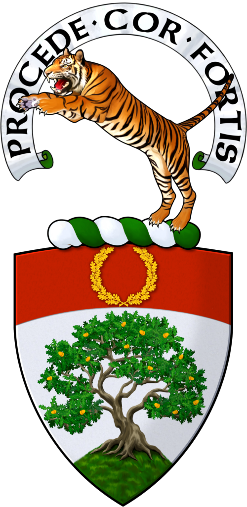 Scottish Coat of Arms of Ronald Stewart Watt (Granted 2016)